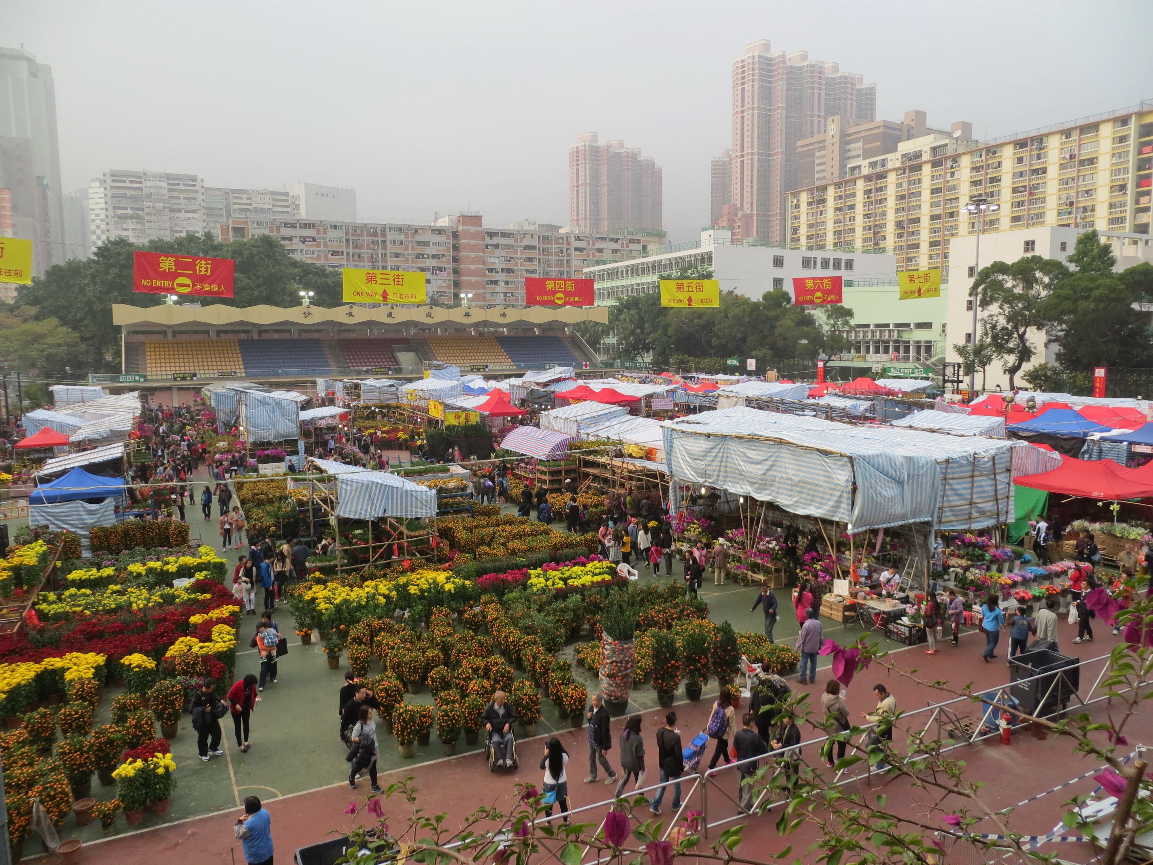 Lunar New Year Fair at Sha Tsui Road Playground, Tsuen Wan, 2015, Hong Kong.